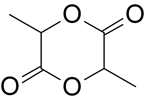 Lactide